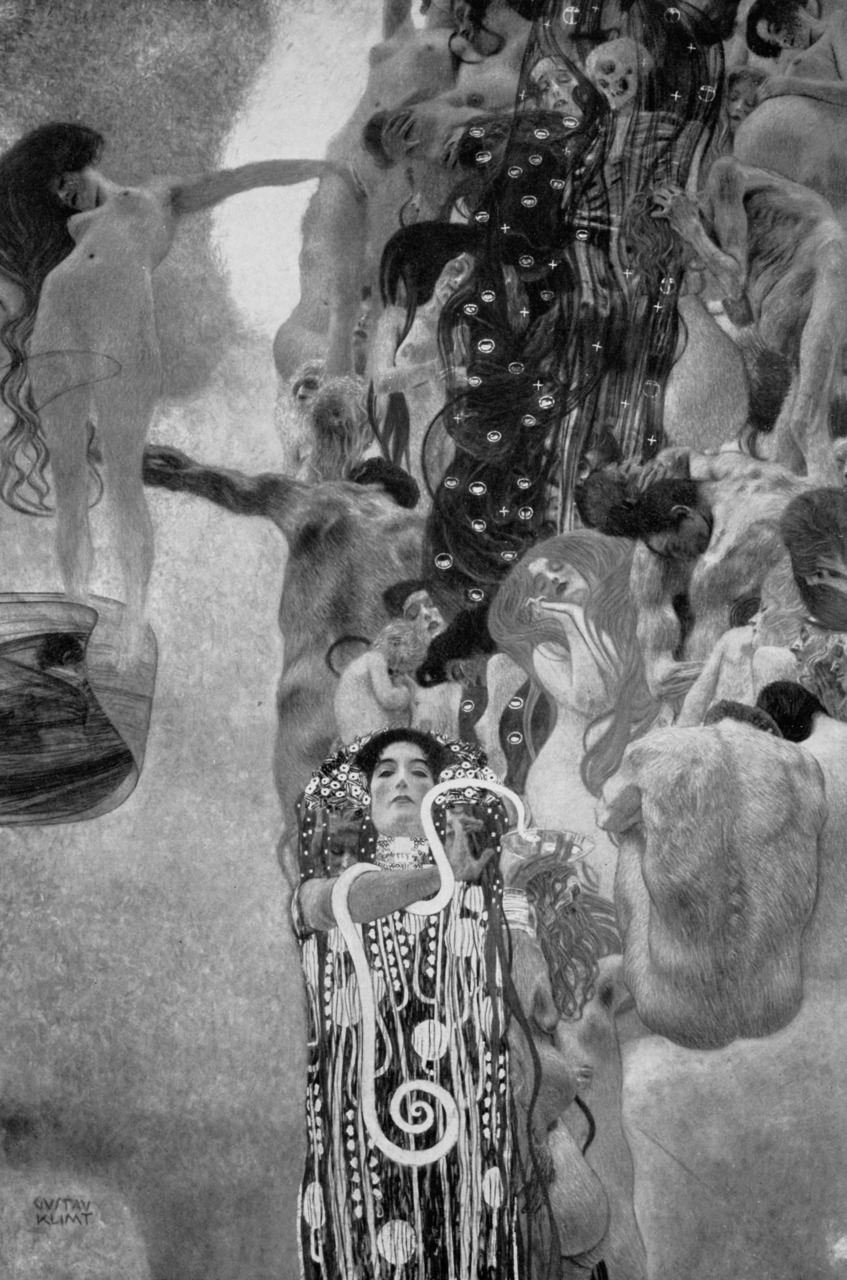 Photo of the painting Medicine by Gustav Klimt